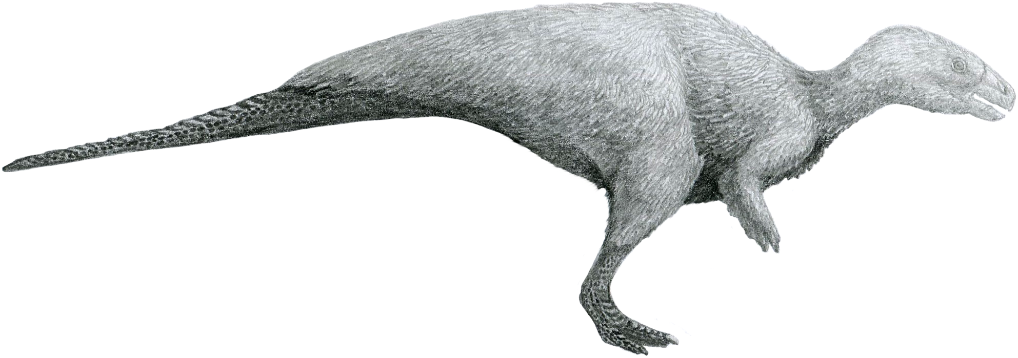 Rhabdodon priscus by Tom Parker.